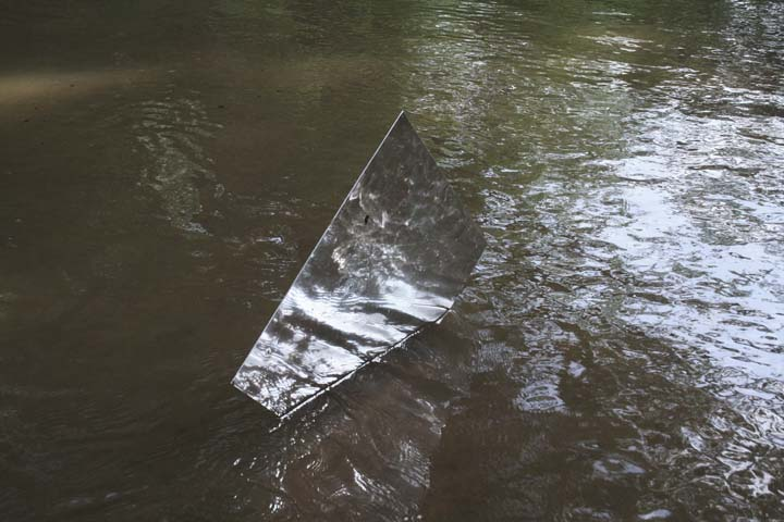 Space/Time (1964), photo document of a site specific sculpture, West Lebanon, New York.